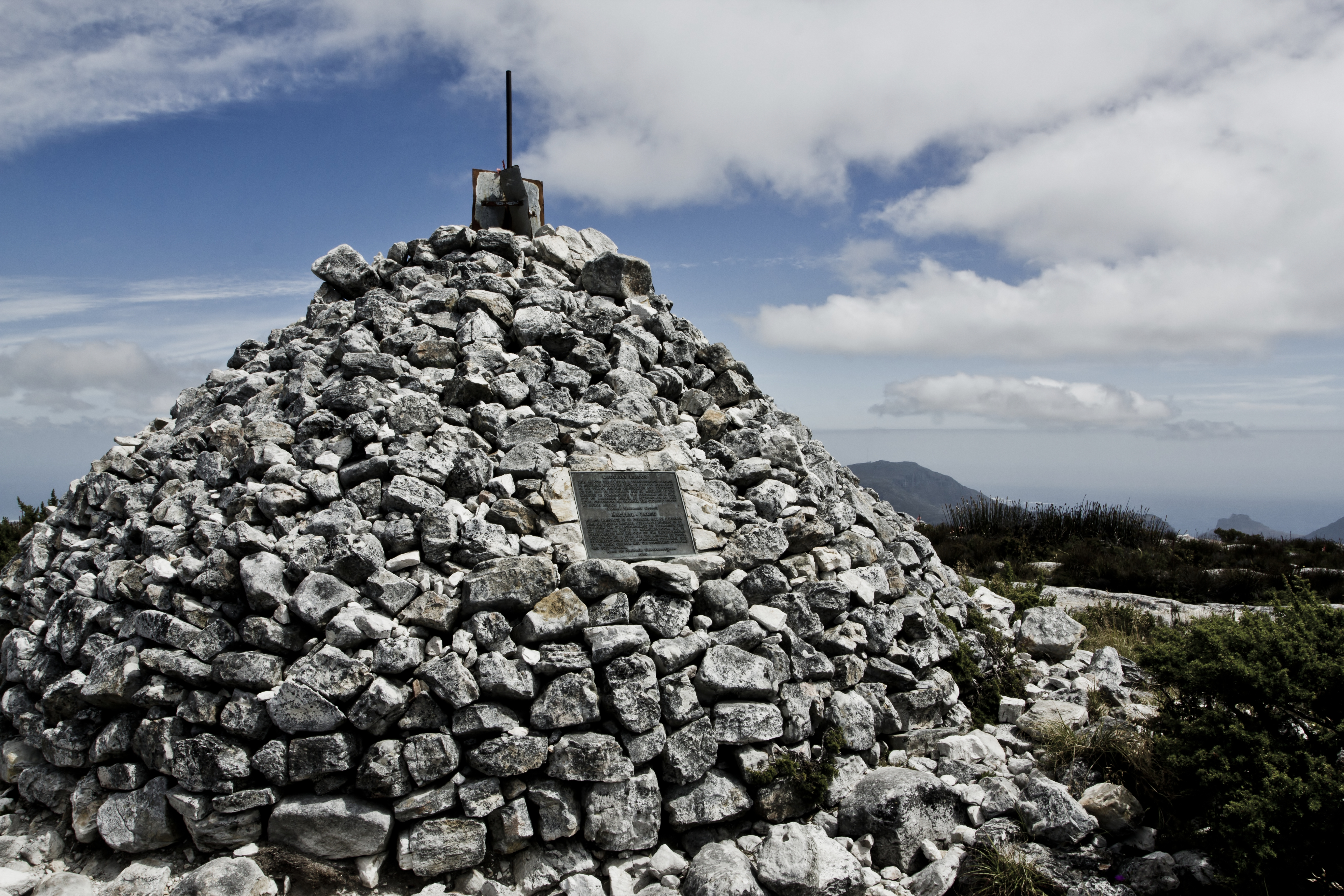 Maclear's Beacon